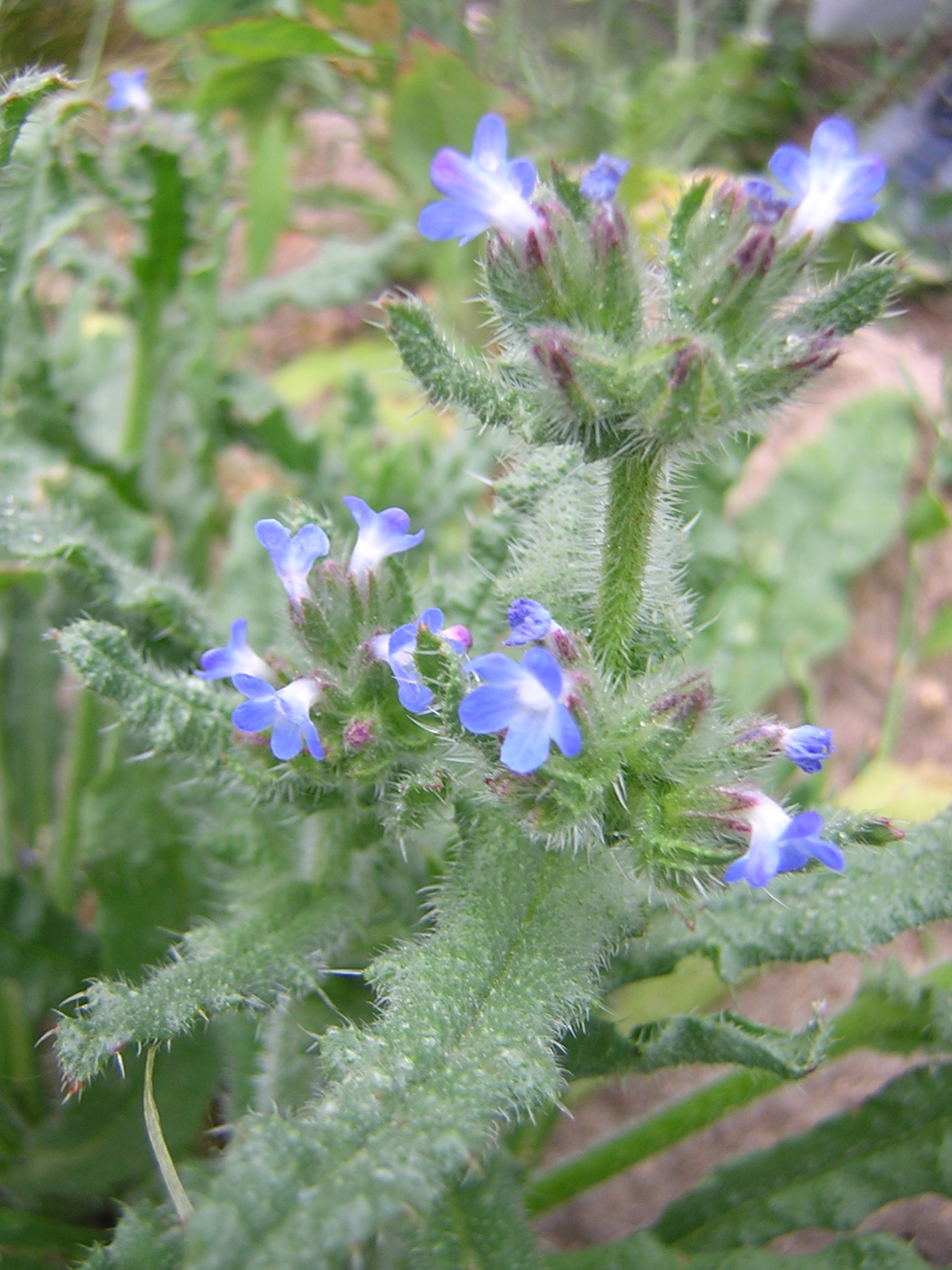 Flowers of Anchusa arvensis, found in France (Maine-et-Loire)